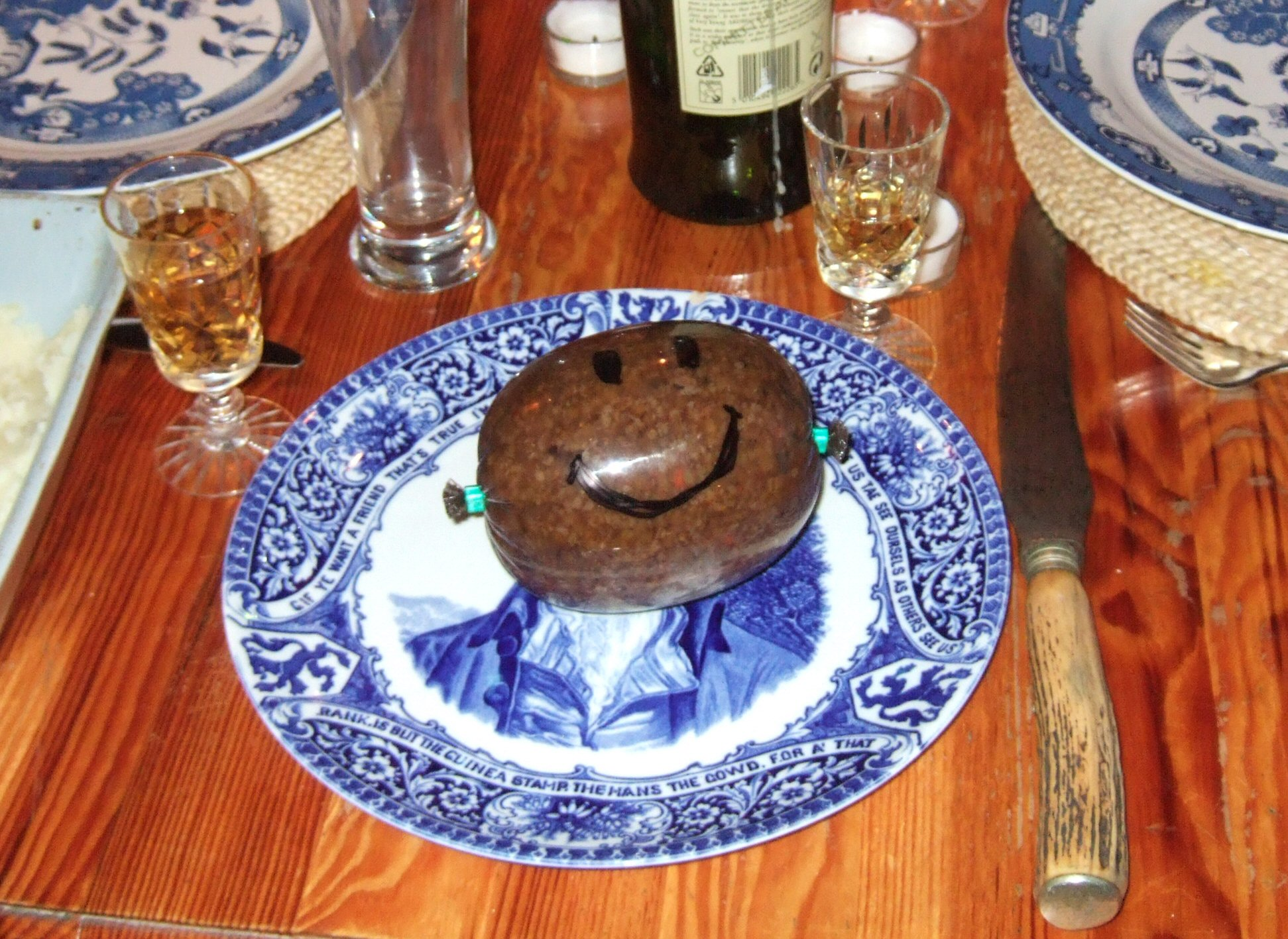 A haggis which has had a face drawn on the plastic wrapping. The plate it is sitting on depicts Rabbie Burns. To make this even more amusing, it is actually a vegetarian haggis!